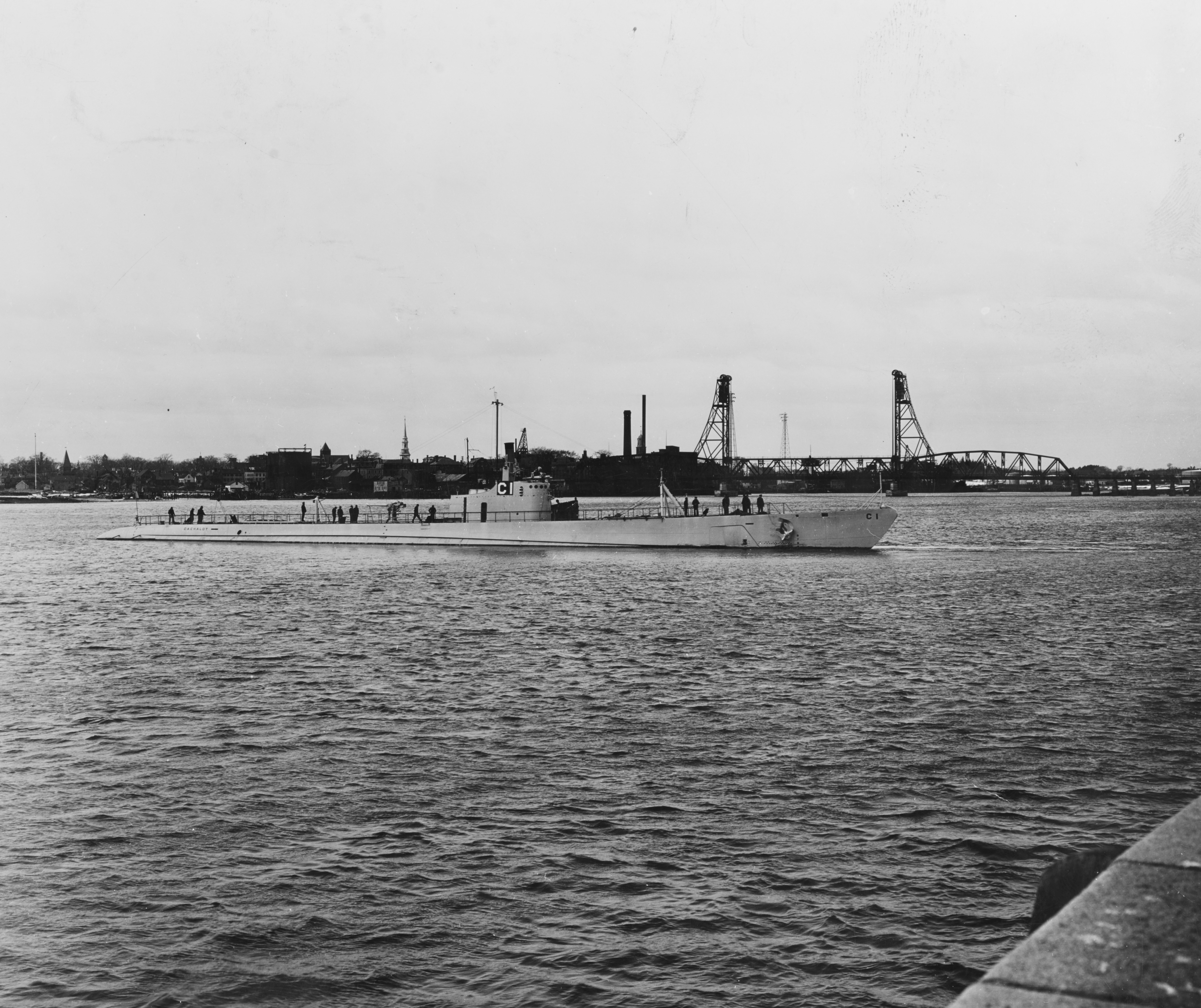 (SS-170) Leaving the Portsmouth Navy Yard, Kittery, Maine, for a 5000-mile endurance test, 7 March 1934. Photograph from the Bureau of Ships Collection in the U.S. National Archives.